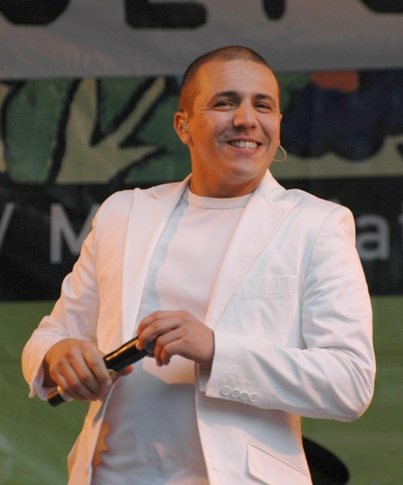 singer Faudel in concert in Stuttgart, Sommerfestival der Kulturen, June 25, 2008